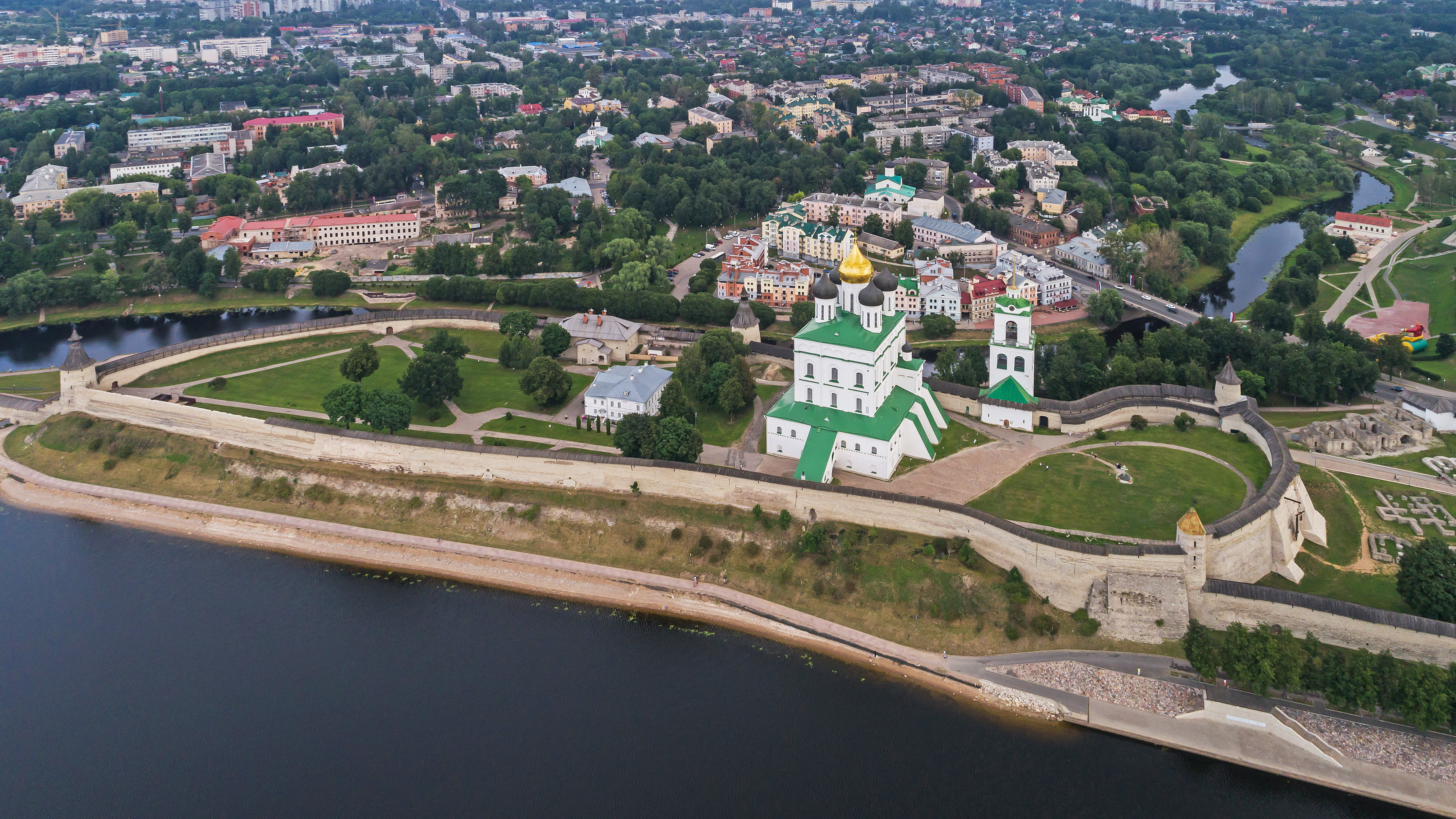 Aerial view of the Kremlin in Pskov, Russia